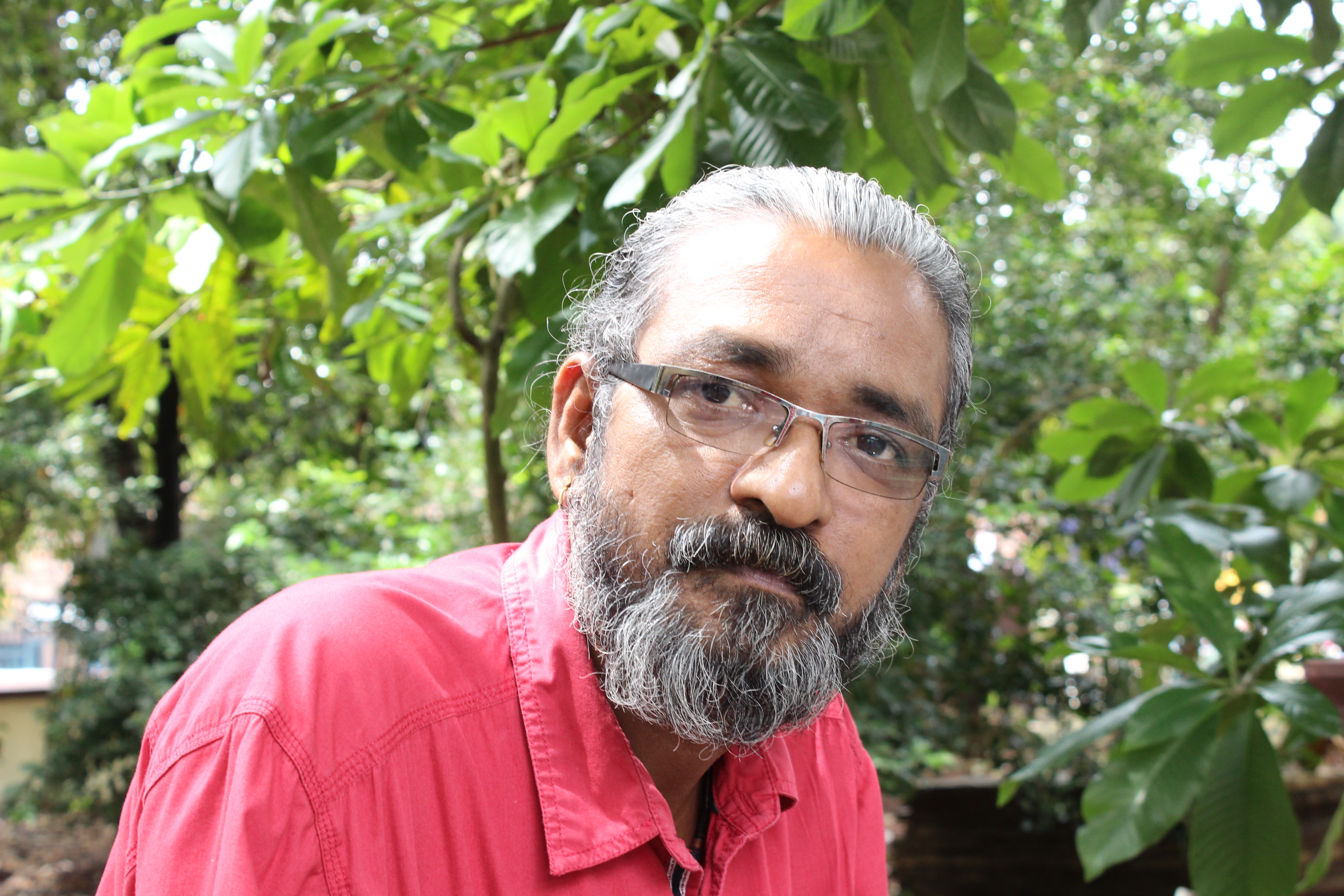 Priyanandanan